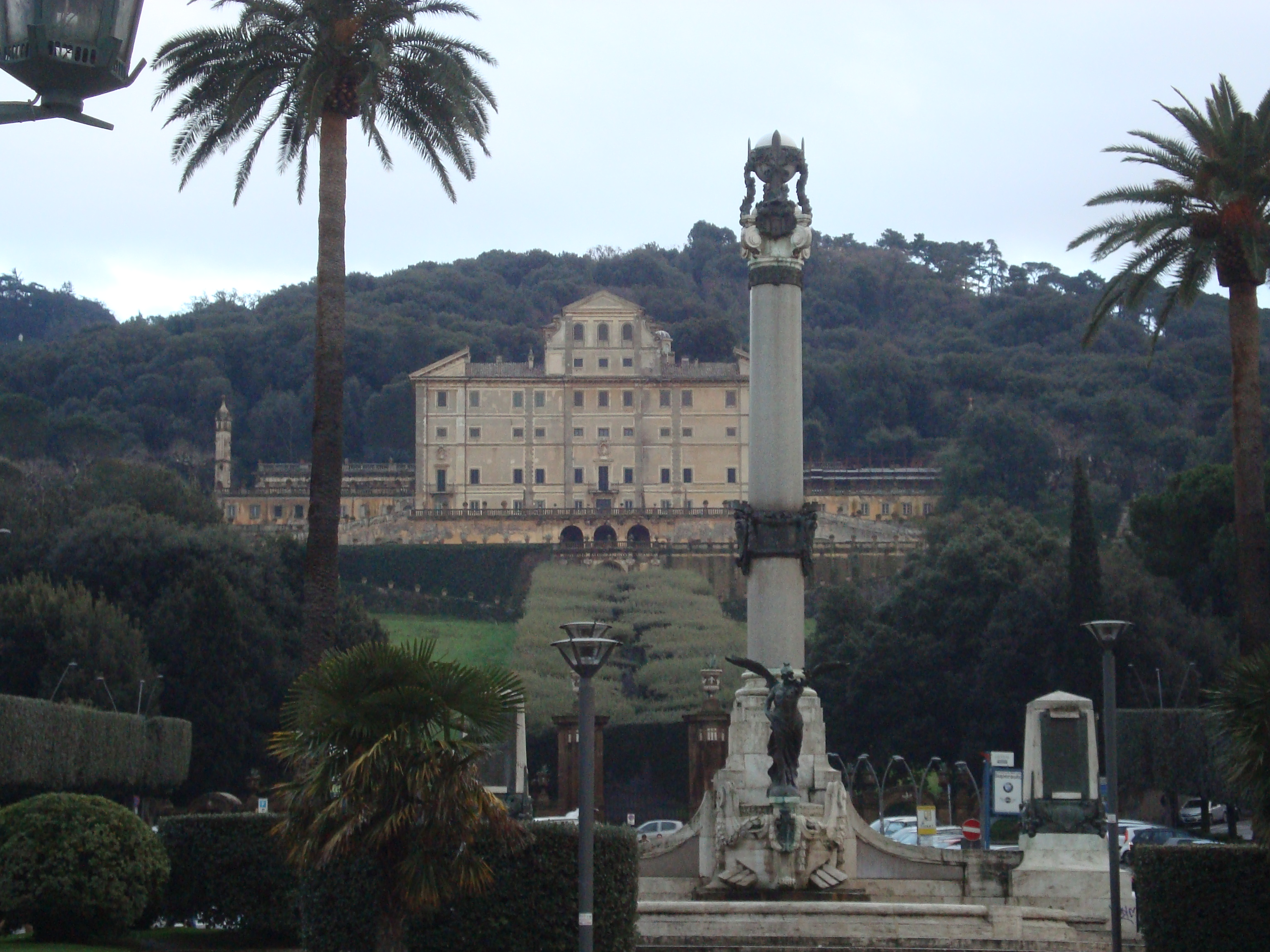 The Palazzo Aldobrandini in Frascati